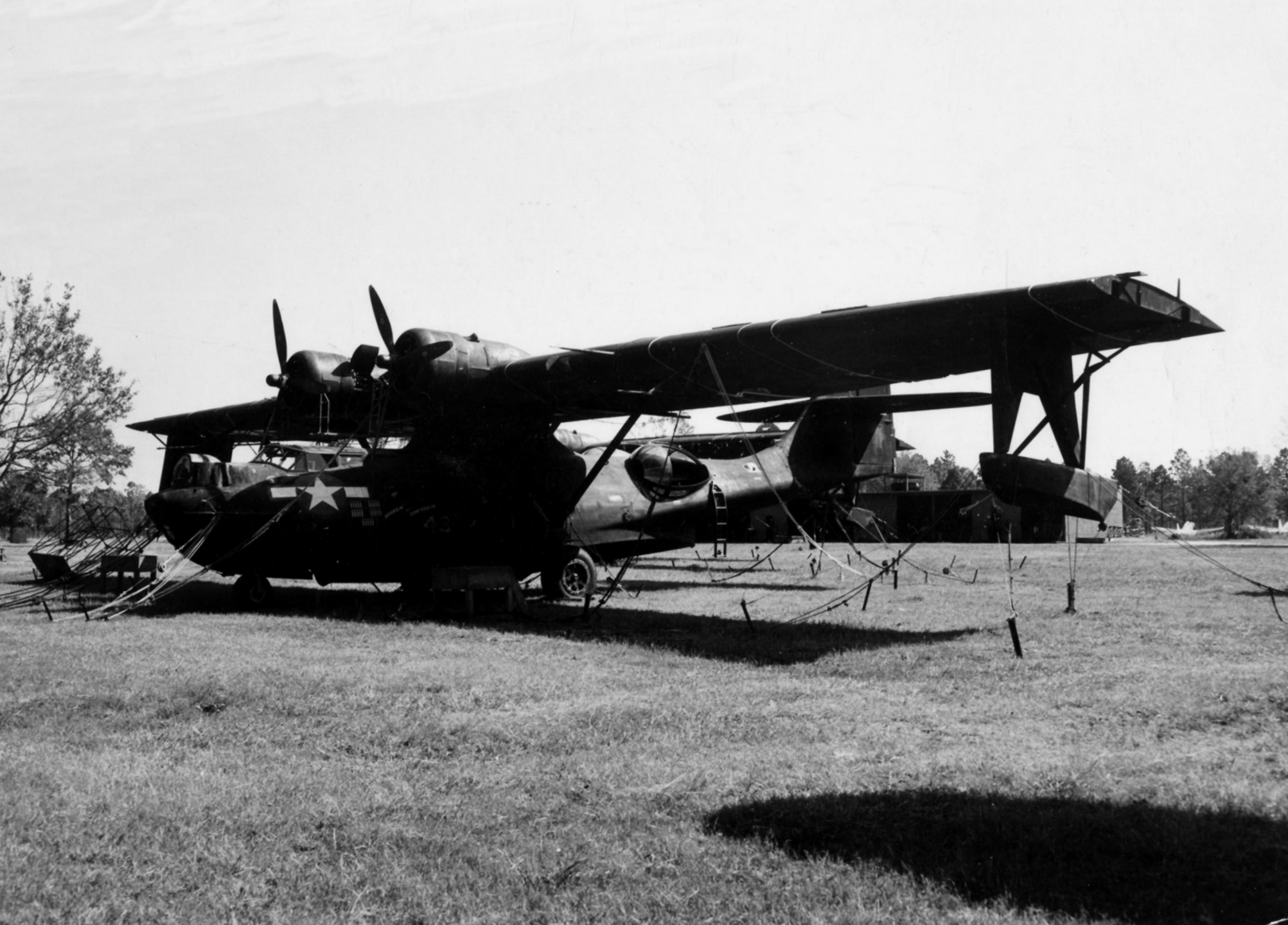 One of the original "Black Cat" Consolidated PBY-5A Catalina used by Patrol Squadron VP-52 in the south-west Pacific in 1943. The plane was sent to Naval Air Station Jacksonville, Florida (USA), and used for instructional purposes. Note the 25 mission markers.